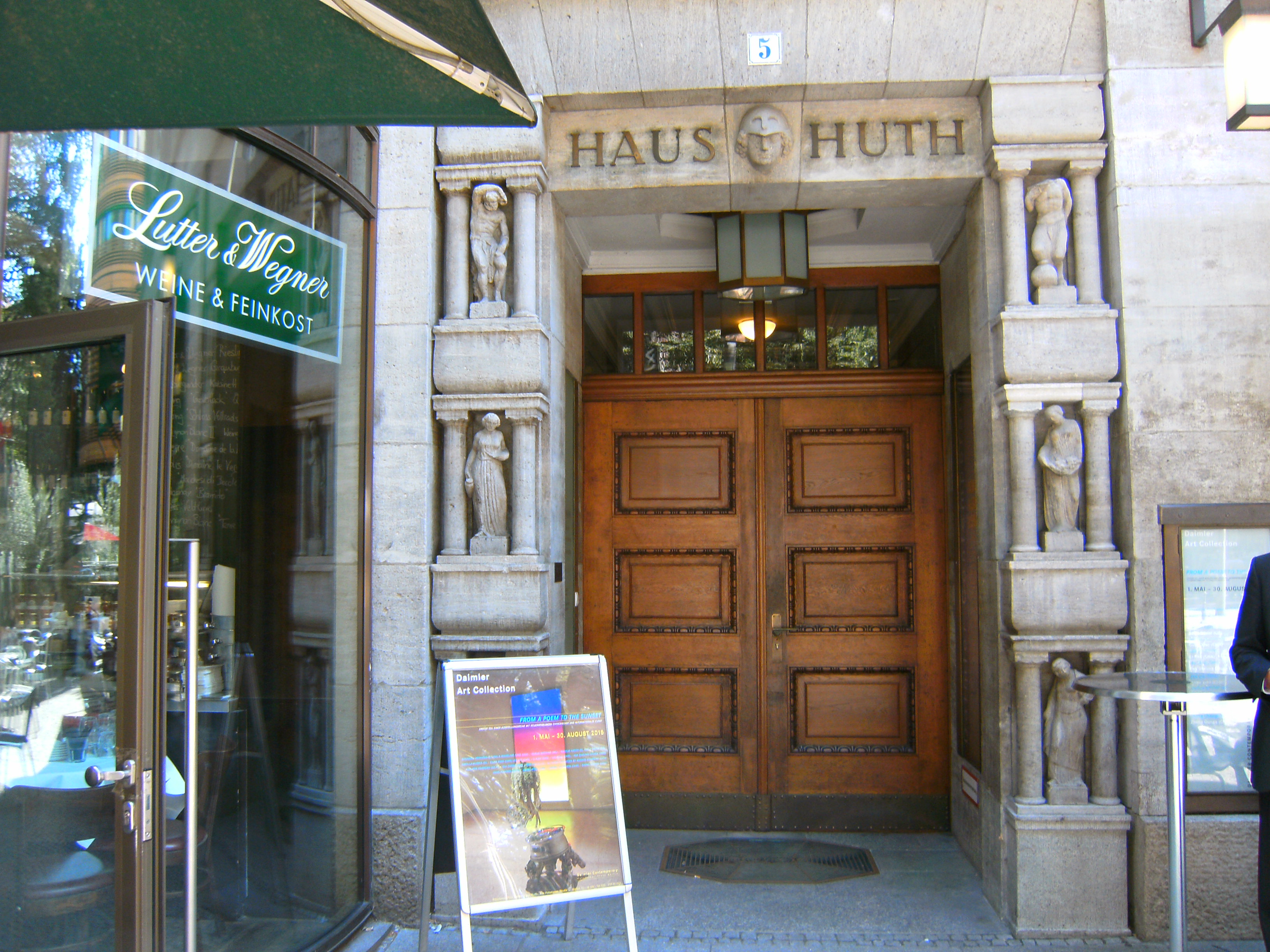 Berlin, Alte Potsdamer Straße 5: Haus Huth, entrance to the Daimler Art Collection.